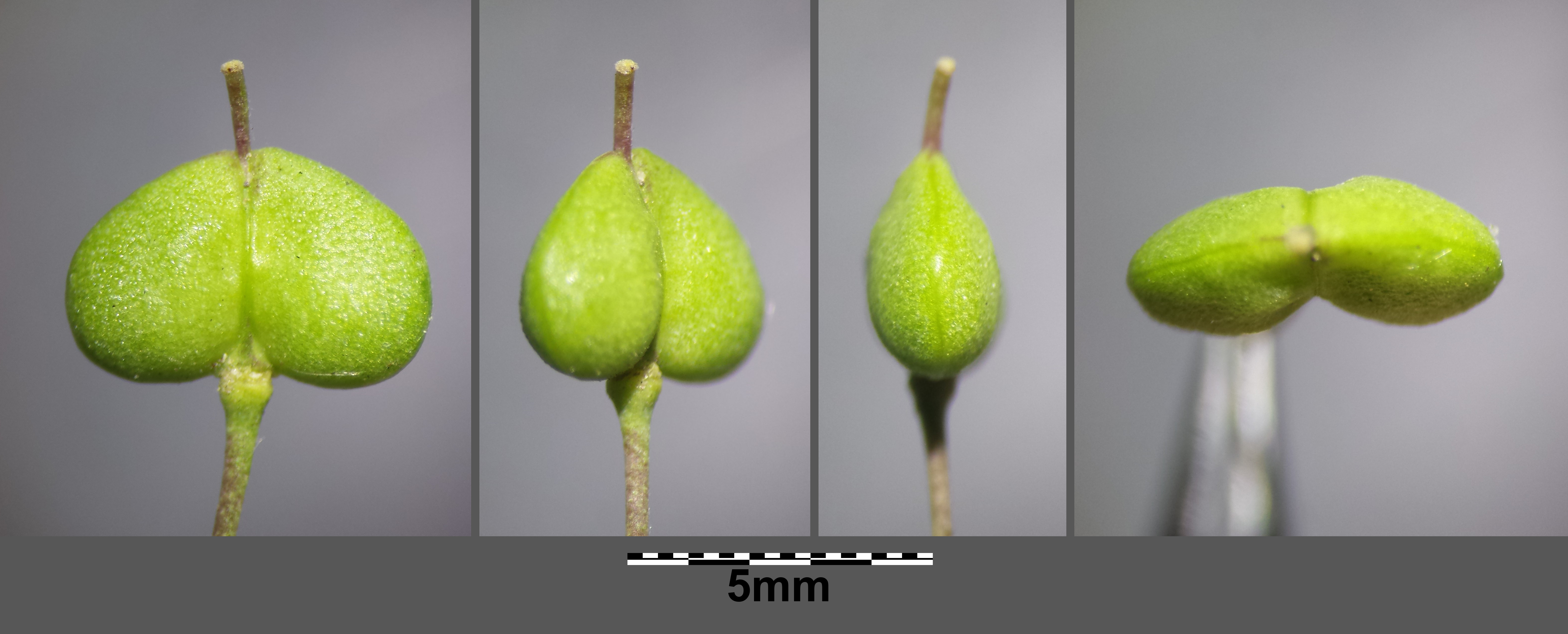 Fruit Taxonym: Lepidium draba (subsp. draba) ss Fischer et al. EfÖLS 2008 ISBN 978-3-85474-187-9 Location: Neue Donau, Vienna-Floridsdorf - ca. 160 m a.s.l. Habitat: ruderal area under a bridge